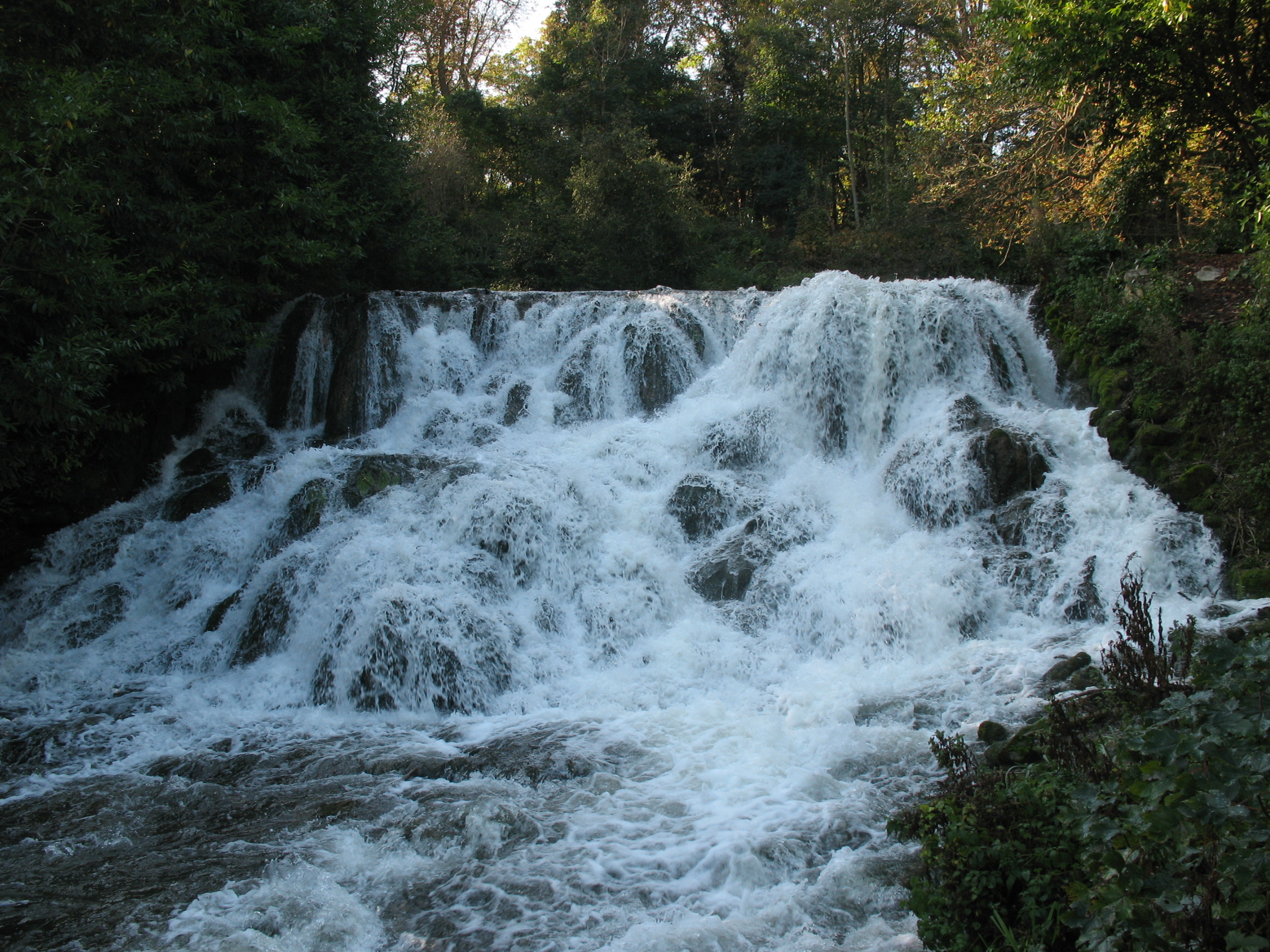 The cascade at the exit to the great lake at Blenheim Palace